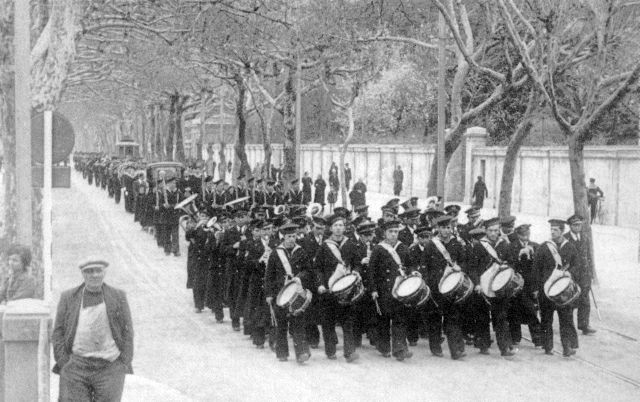 Italian militaryband and guard of honor is leading on the way to the funeral ceremony honoring swedish radio operator Larsson, killed by accident i La Specia 4th of April 1940.